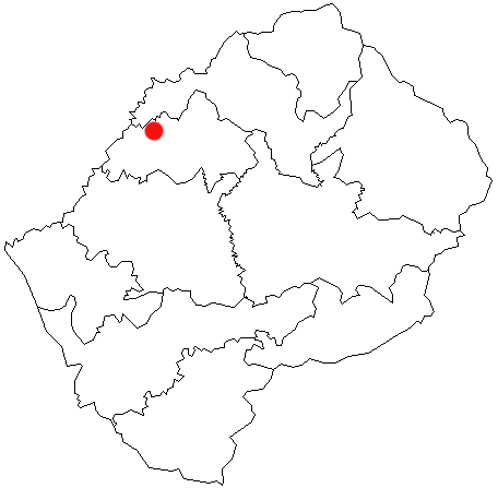 Teyateyaneng, Lesotho Location Map; created with the GIMP. Made by User:Acntx.